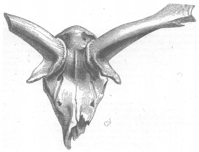 Cervus megaceros Hibernicus- The head and horn-beams of what appears to be the remains of one of the oldest animals of the Irish fossil elk yet recorded. The superior maxillary bone is imperfect; the infra-orbital apertures are very oblique, only 2- inches beneath the burr or crown, and the approaching edges of the burr are but three inches asunder; while in No. 3 that space is 43 inches wide, and in No. 9 it is still larger, so that these distances may, with other circumstances, be taken as indications of age. The breadth between the orbits is 91 inches. The right palm only remains, and is deeply grooved for the large arterial network which ramified on being the largest yet recorded-, except that Irish specimen at Knowle Manor Rouse, in Kent, mentioned by Professor Owen. The brow antlers, although the largest at their bases, of any yet described, are unfortunately imperfect towards their extremities; where they spring from the base of the beam, they are deeply grooved, and the anterior and outer surfaces of the horn-beam itself also present deep indentations, which spread upwards and outwards along its edge into the antler; the teeth are worn to the crown, and several of the alveoli have been absorbed. Taking all the circumstances of this very old head, figured on the opposite page, into consideration, I think the approach of the pedestals and horn crowns to each other, the obliquity and the distance of the orbital holes from the base of the horns, and especially the grooving of the horn-beam upwards and outwards from the brow antler, may be taken as indications of extreme age in this animal. This specimen, as also No. 10, was presented by Algernon Preston, who has lately written to me to say " they were found at Chapelizod.